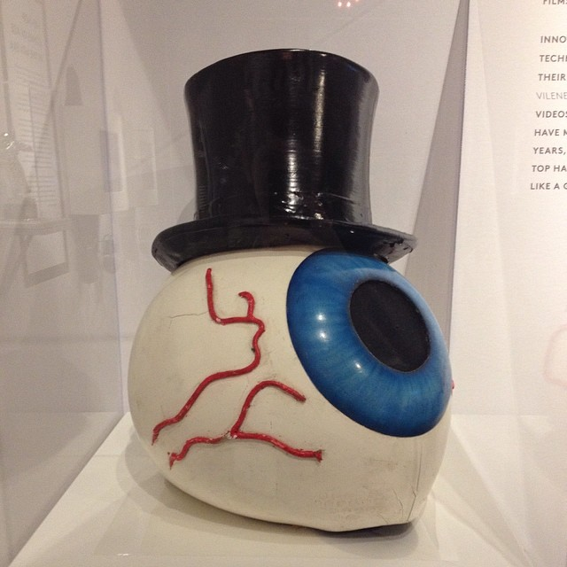 An eye that was used by the Residents on exhibit at the EMP in Seattle, Washington.